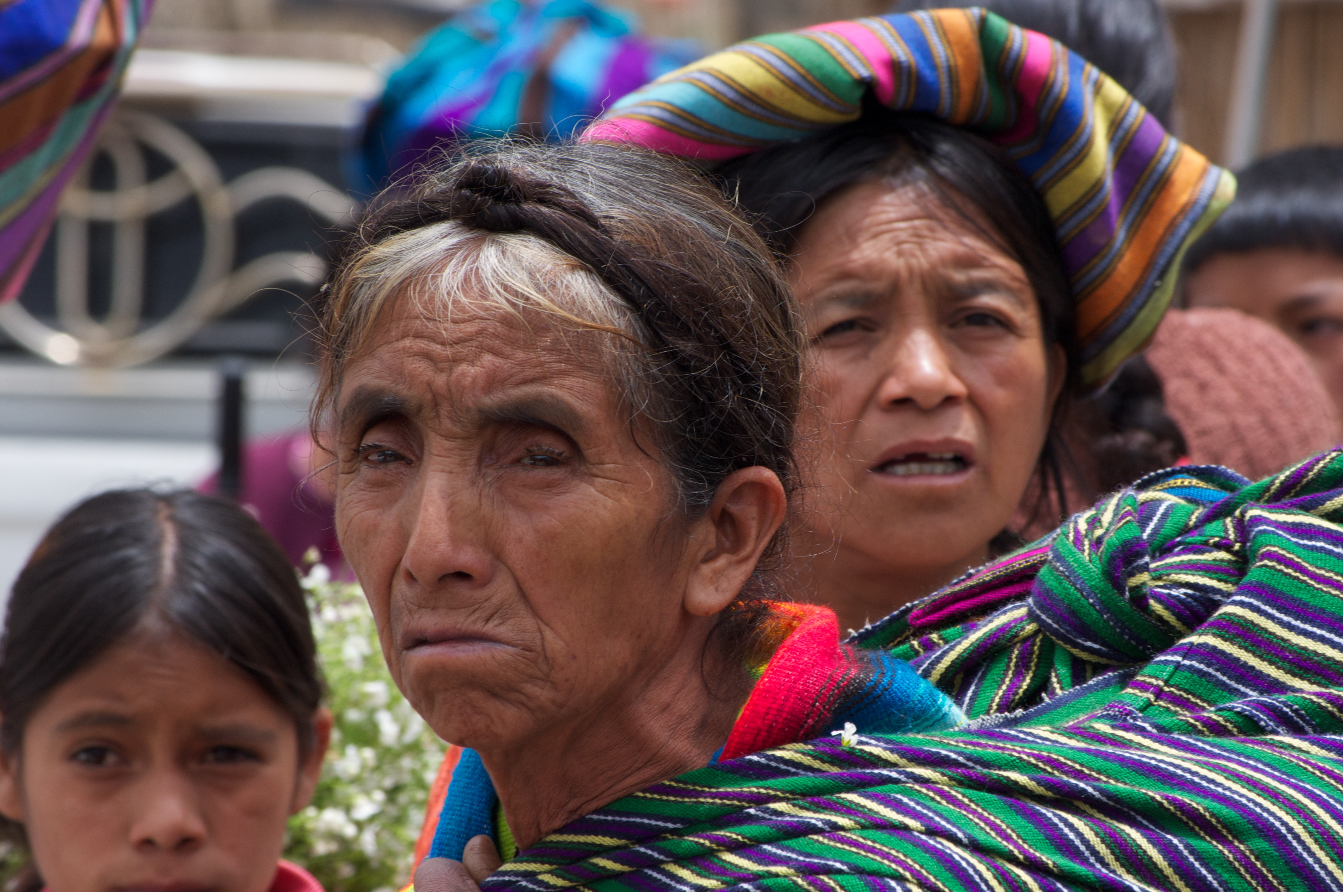 Quiche Mayan Women to market Nahualá - Sacatepéquez Department - Guatemala